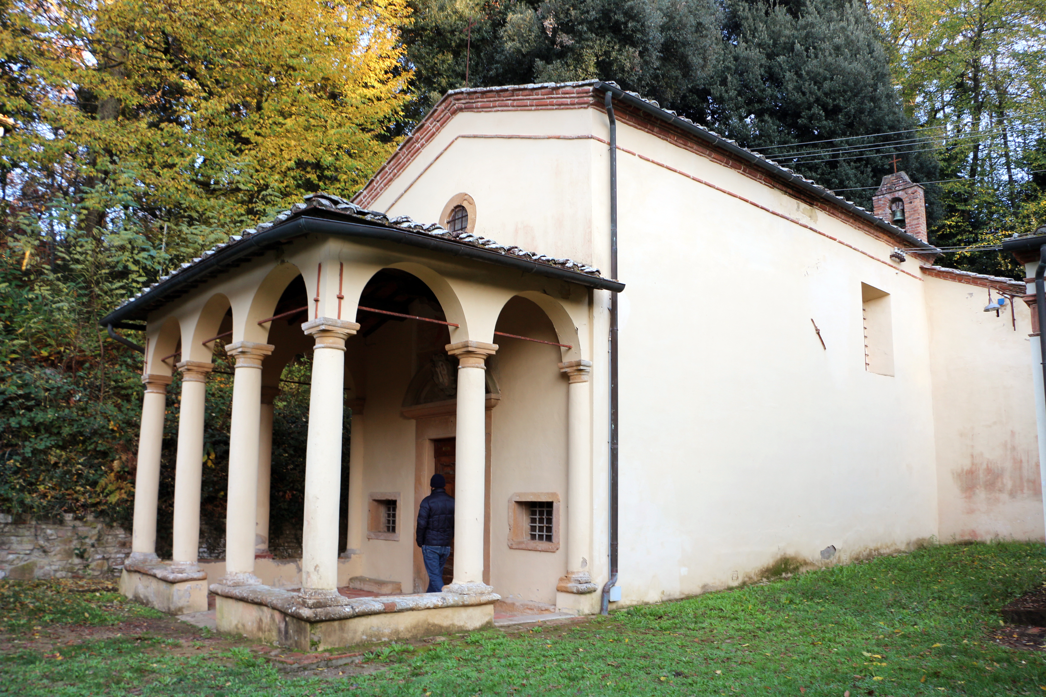 San Vivaldo Sacro Monte